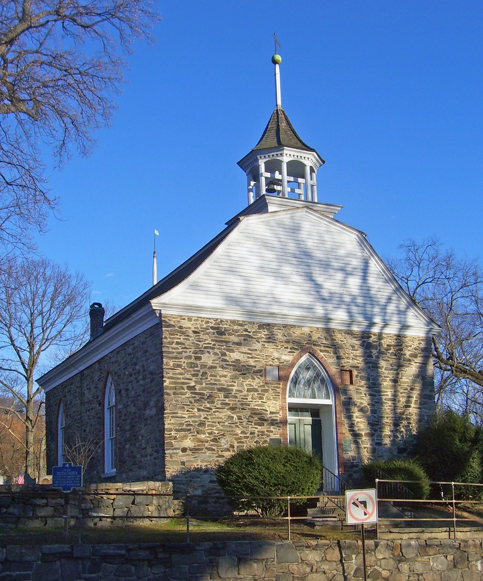 Old Dutch Church of Sleepy Hollow, NY, USA. Oldest church building in New York and featured in Washington Irving's "The Legend of Sleepy Hollow".